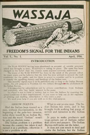 Wassaja pamphlet, April 1916.